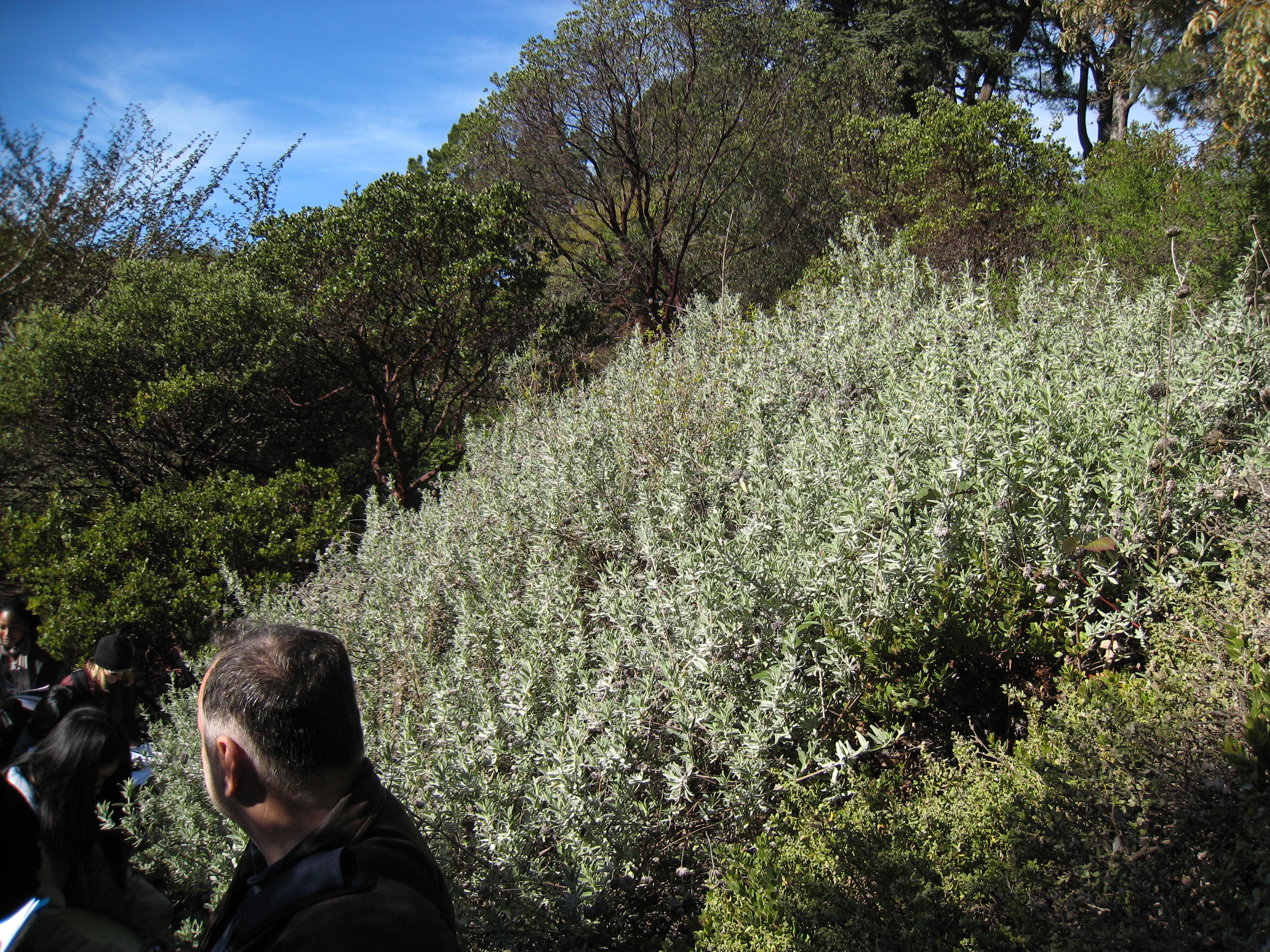 habitat of Salvia clevelandii (Cleveland Sage -- smells like cowboys!)